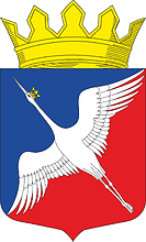 lakdenpokhskiy district coat